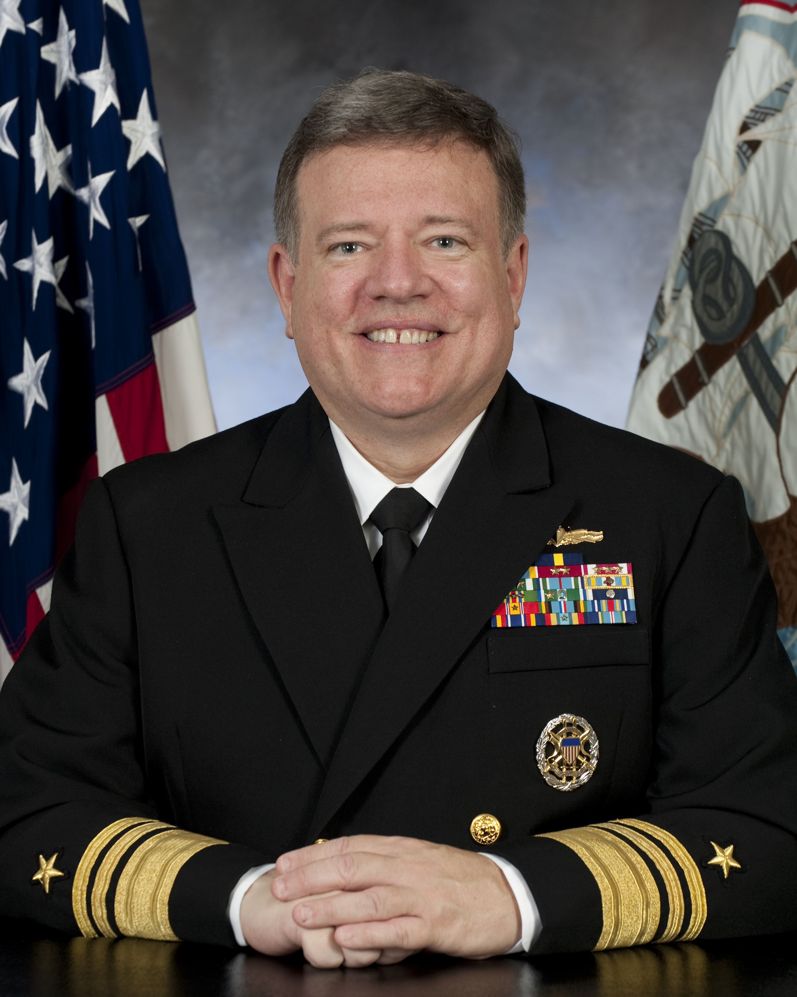 VADM Peter H. Daly in uniform.